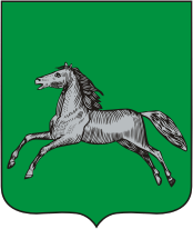 Tomsk (Tomsk oblast), coat of arms (1804)